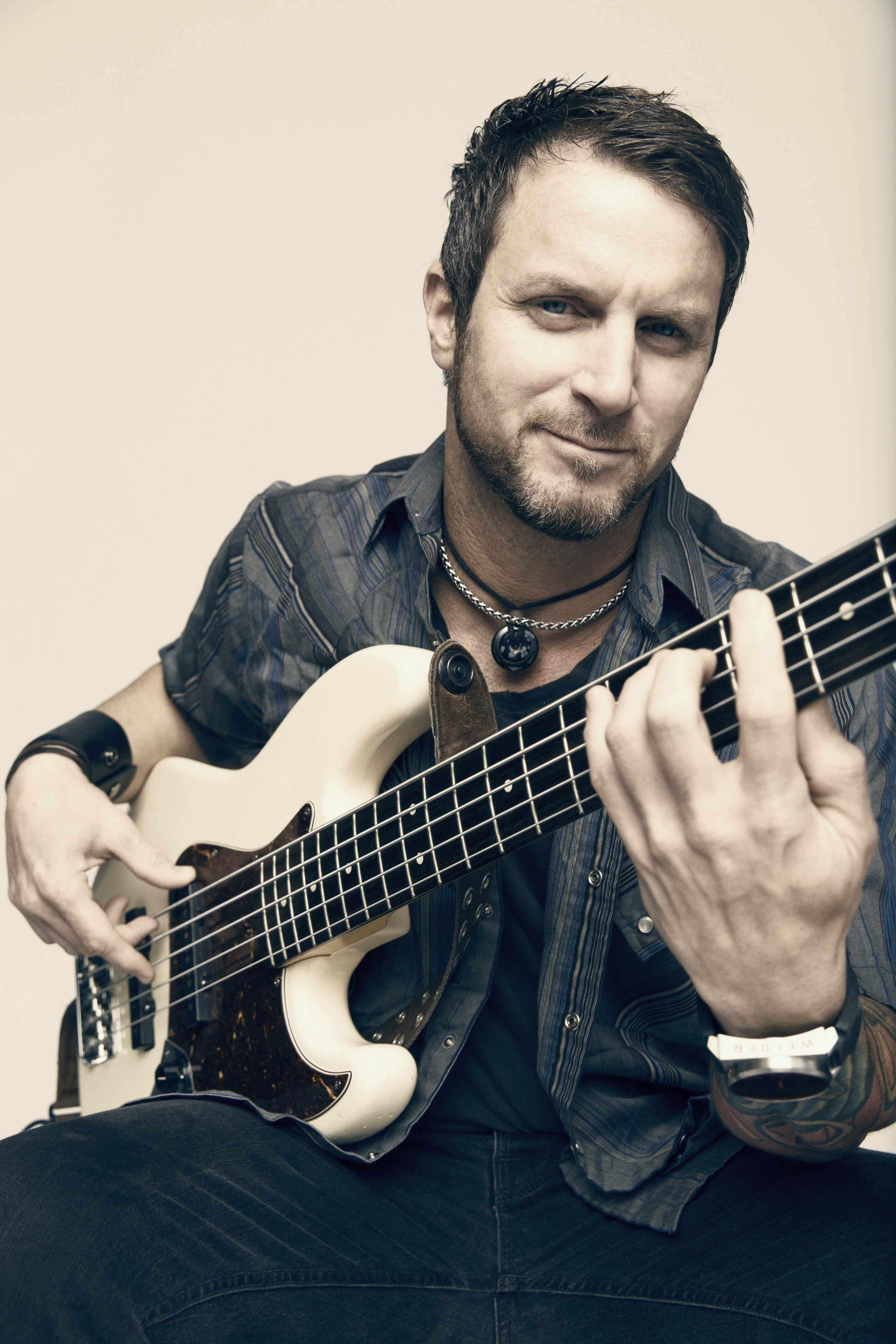 Photo of Brian Marshall taken by Austin Hargrave. Copyright owned by Alter Bridge.